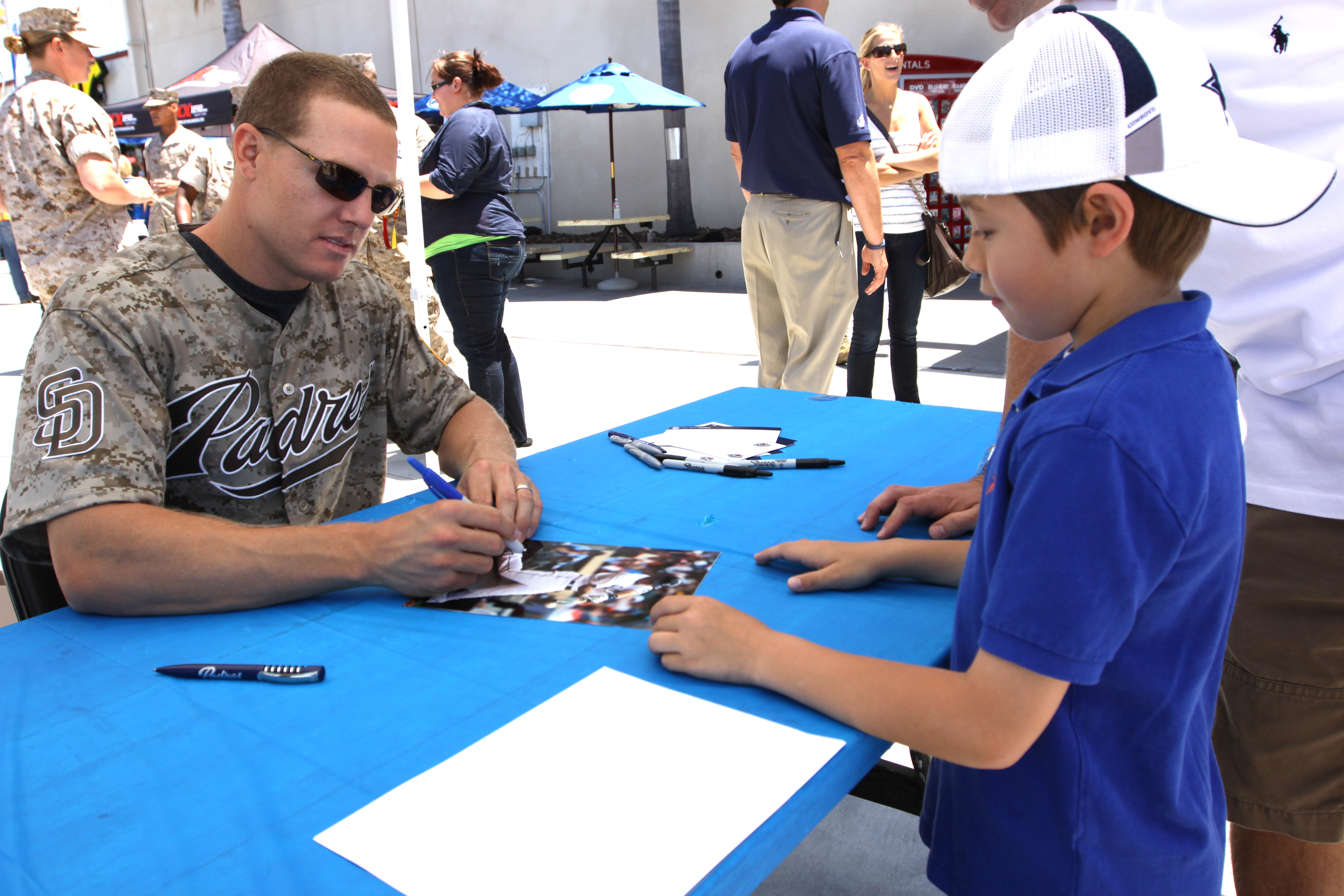 The San Diego Padres starting catcher Nick Hundley, signs an autograph for Tyler Simpson a military child, during Hundley’s visit to the base’s Country Store, June 23. Representatives from the San Diego Padres handed out souvenirs such as baseball hats, t-shirts, and Padres decorated drinking glasses as a gift to the more than 700 attendees.